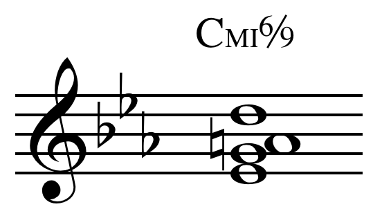 Minor 6/9 chord on C. Created by Hyacinth (talk) 09:57, 11 December 2011 (UTC) using Sibelius 5. See also: File:Minor_6-9_chord_on_C.mid